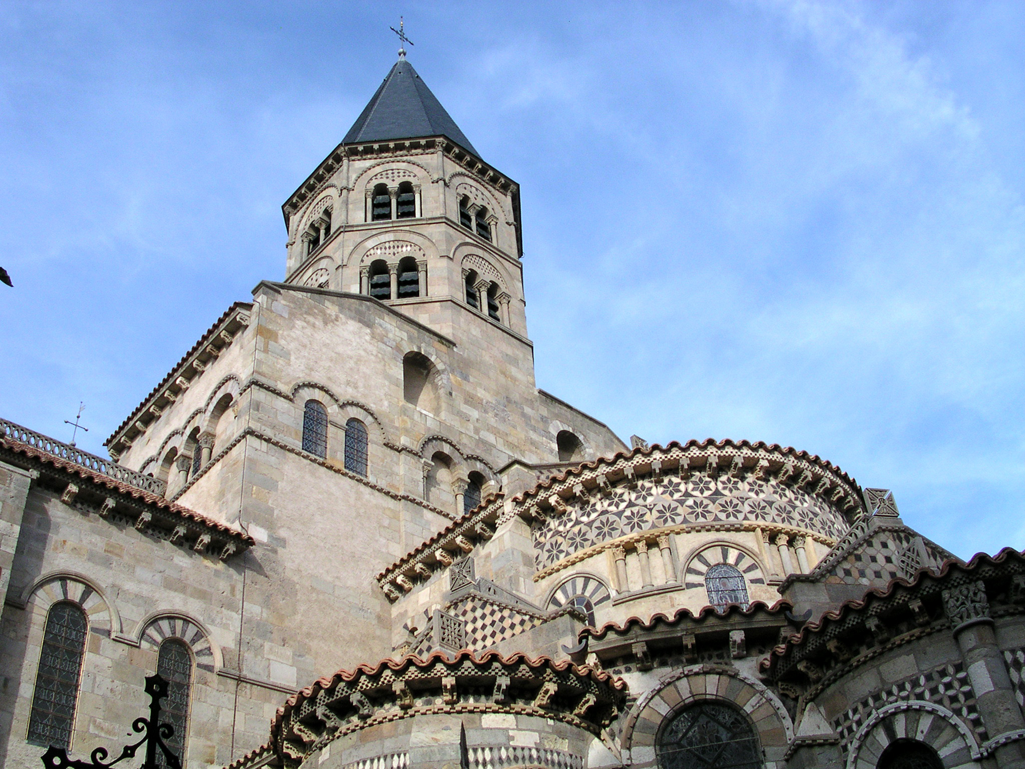 Basilica Notre Dame du Port XIIth century (Clermont-Ferrand, Puy-de-Dôme, France